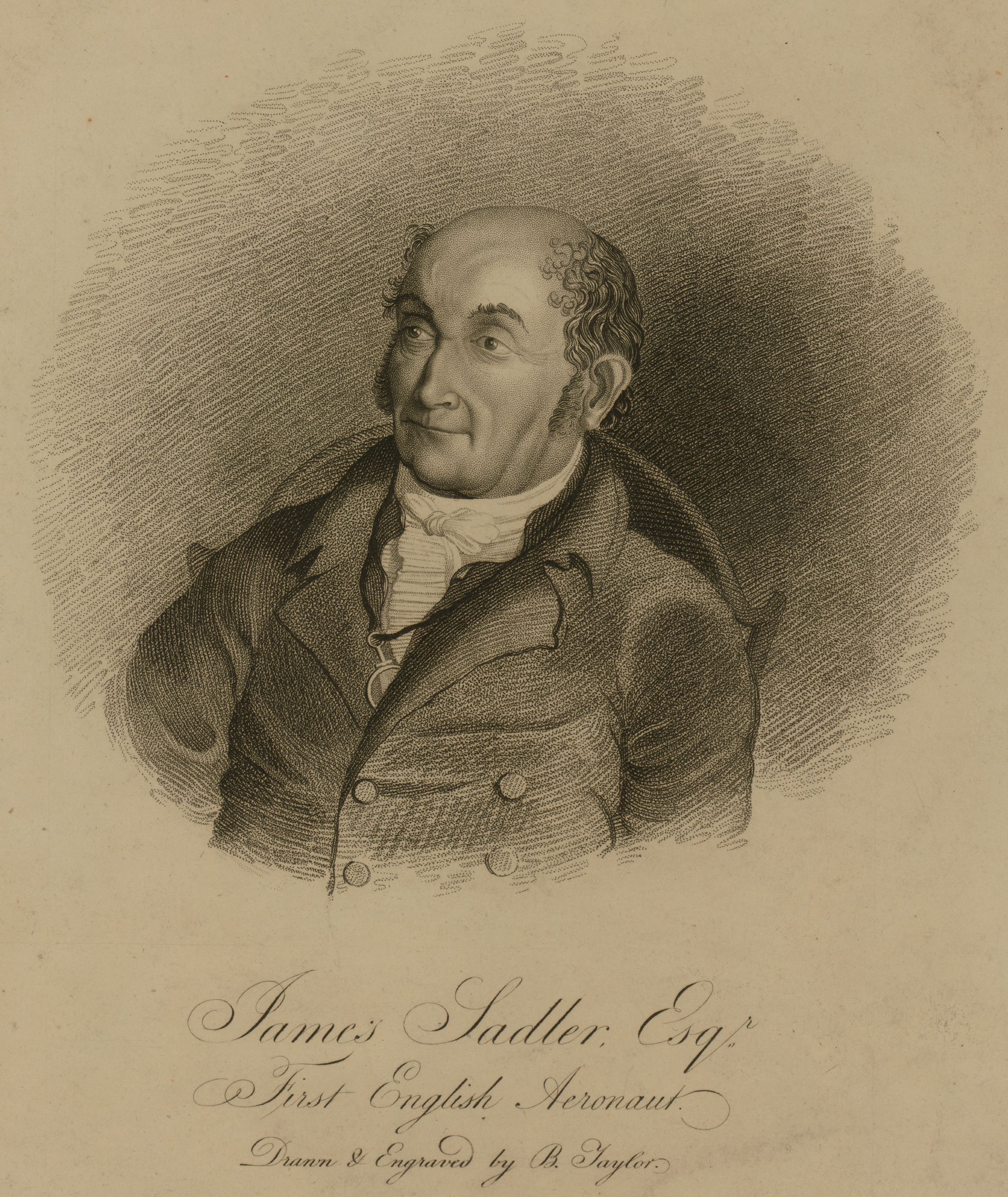 Head-and-shoulders portrait of English balloonist James Sadler